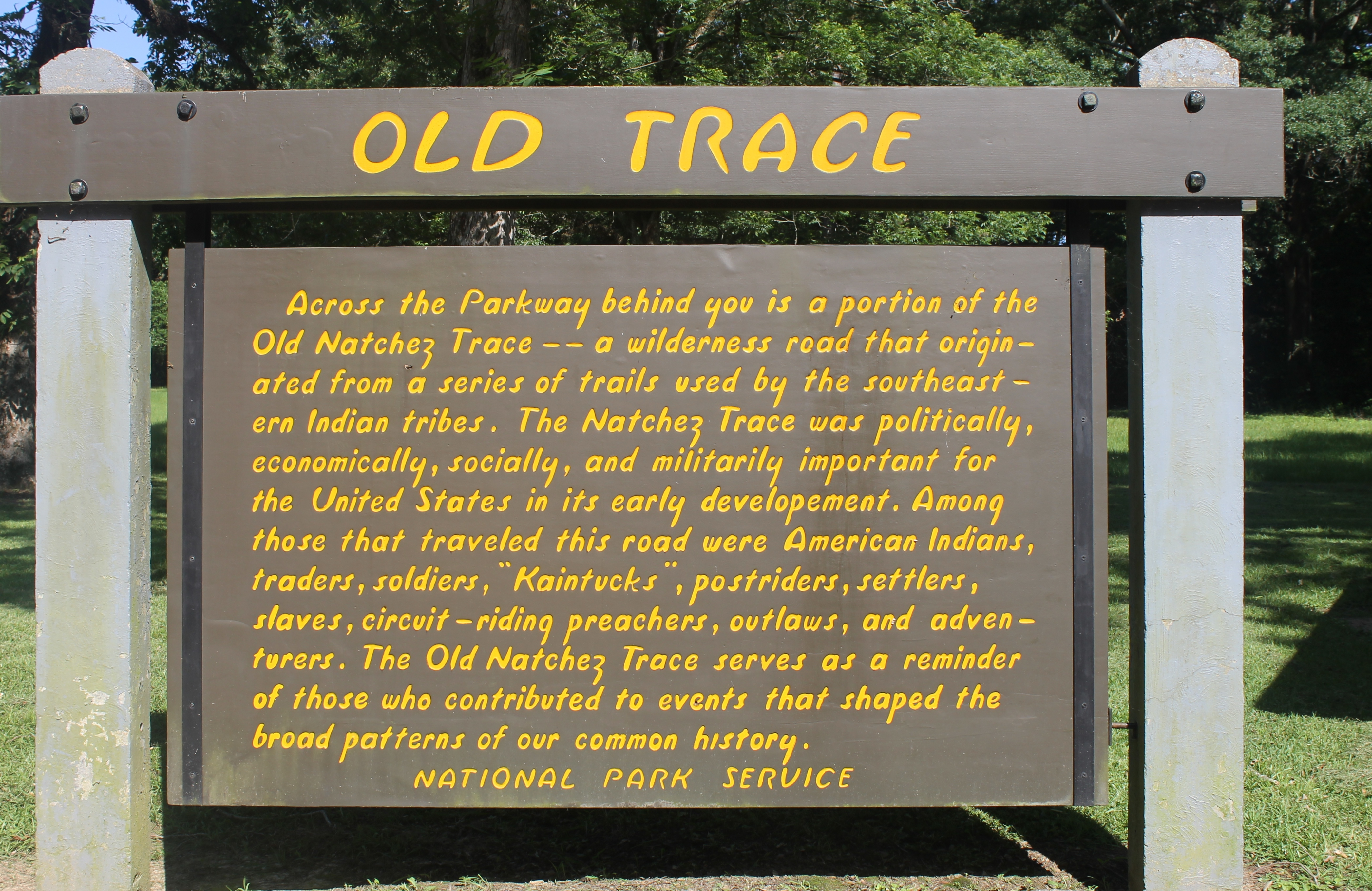 Old Trace sign (history of Natchez TraceP